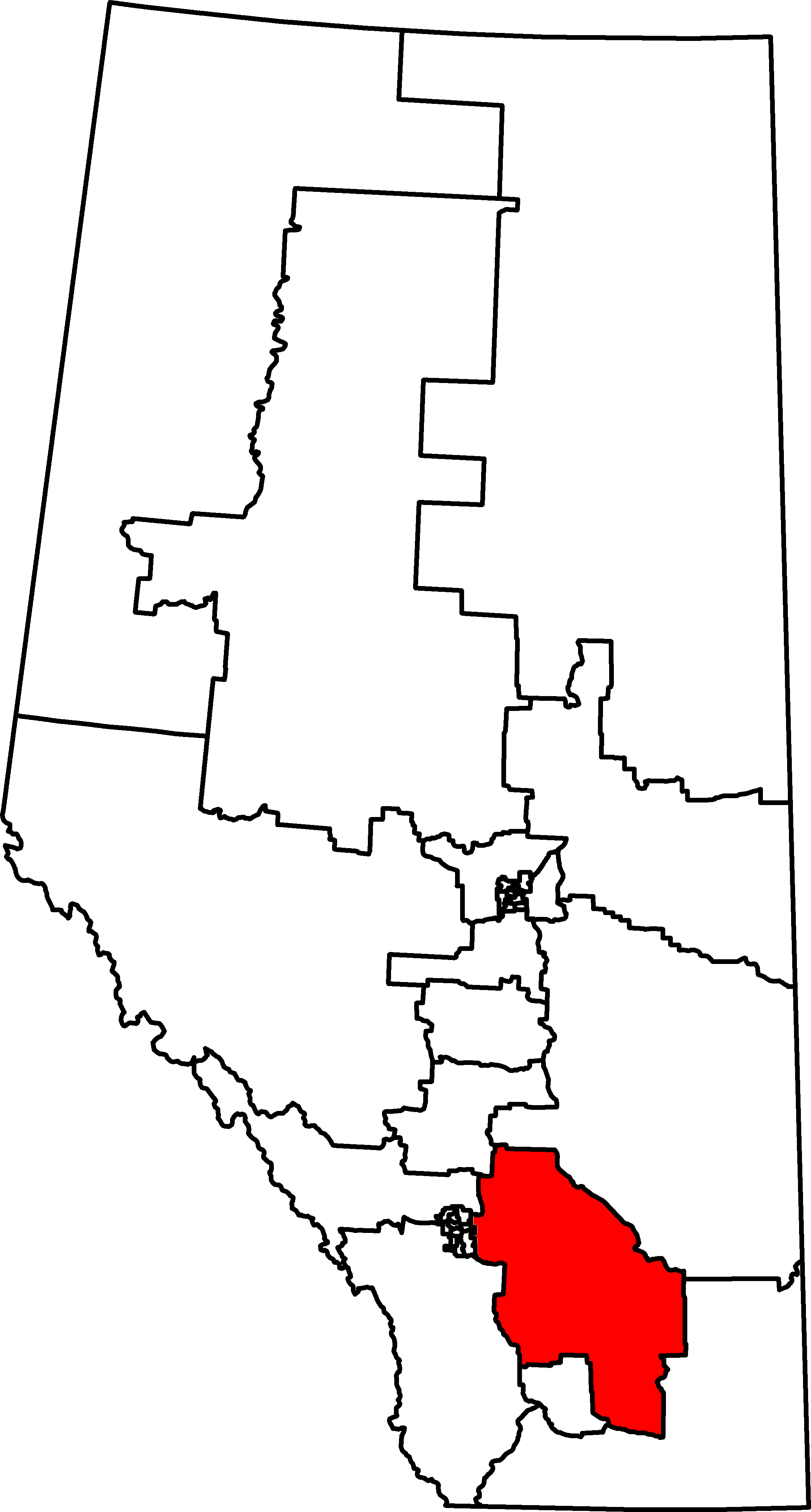 Federal Electoral District in Alberta, Canada as of the 2013 Representation Order.